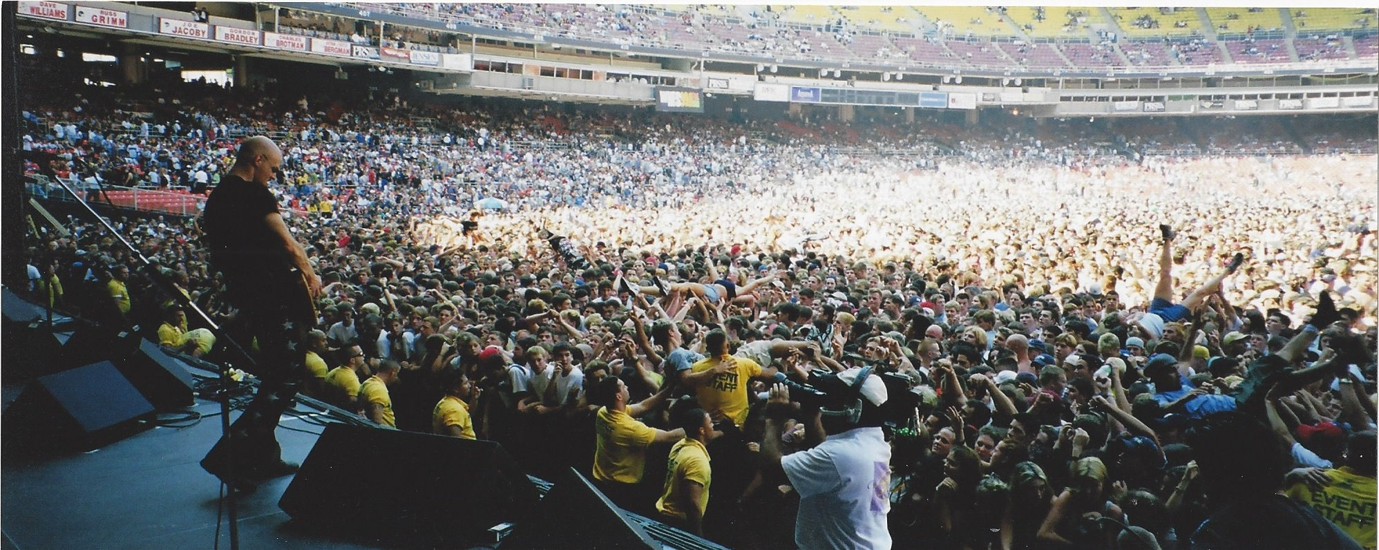 HFS Festival Carl Bell w/Fuel RFK Stadium Washington DC